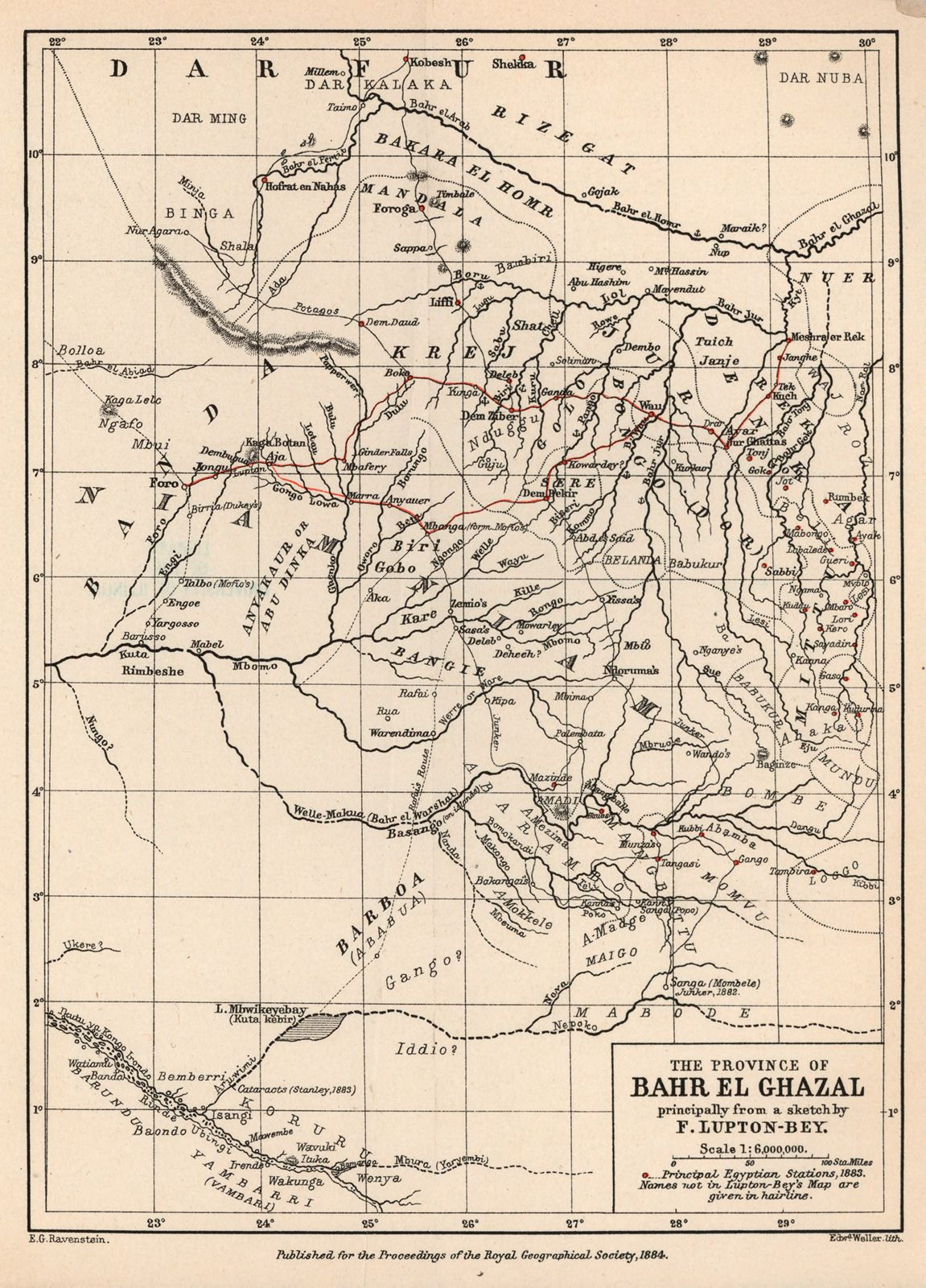 "The Province of Bahr El Ghazal principally from a sketch by F. Lupton-Bey" Scale 1:6,000,000 published for the Proceedings of the Royal Geographical Society, 1884